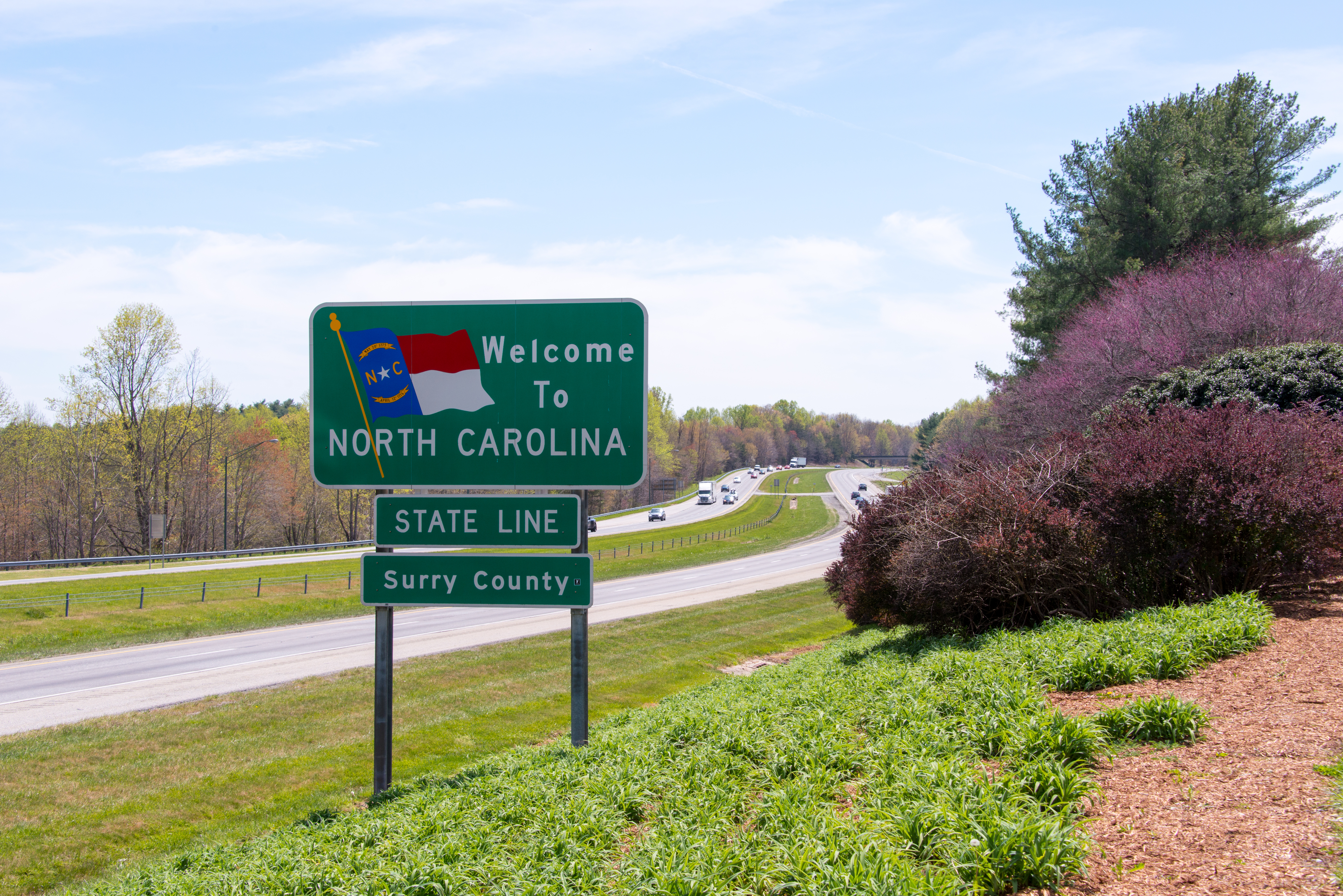 "Welcome to North Carolina" sign, fixed along the state line. The sign is situated between the freeway and the Welcome Center exit ramp, along Interstate 77.